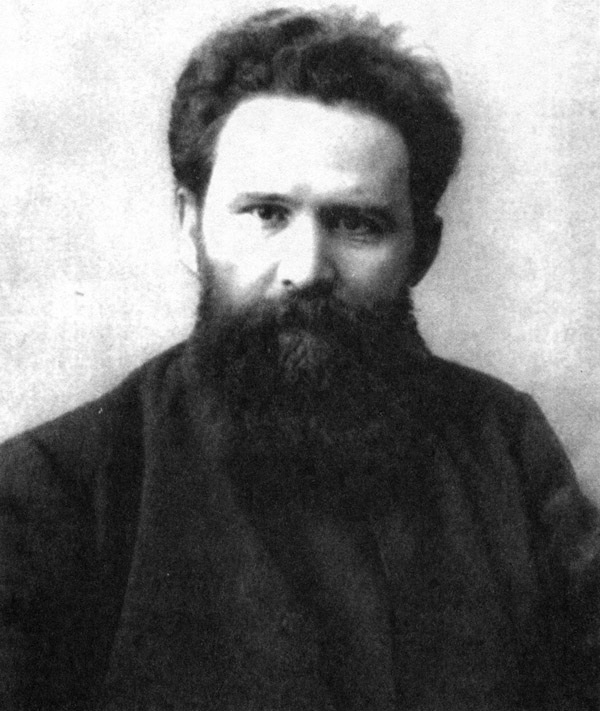 Valadimir G Korolenko